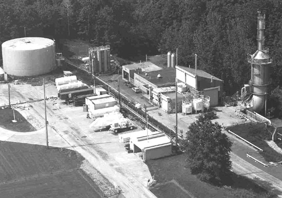 Rocket Engine Test Facility, Cleveland, Ohio, 1982. National Historic Landmark Program photograph by NASA.